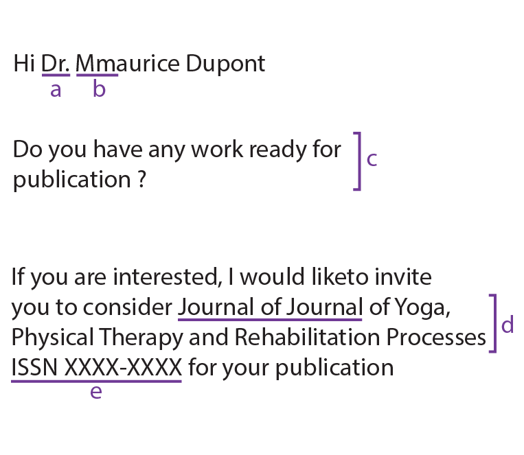 a: Call everyone Dr even PhD students, b: Typos, even in researcher's name, c: put time pressure, d: Obvious poor knowledge of english or lack of proofreading, journal usually in a discipline unrelated to the researcher's, e: incorrect use of, or wrong number of ISSN